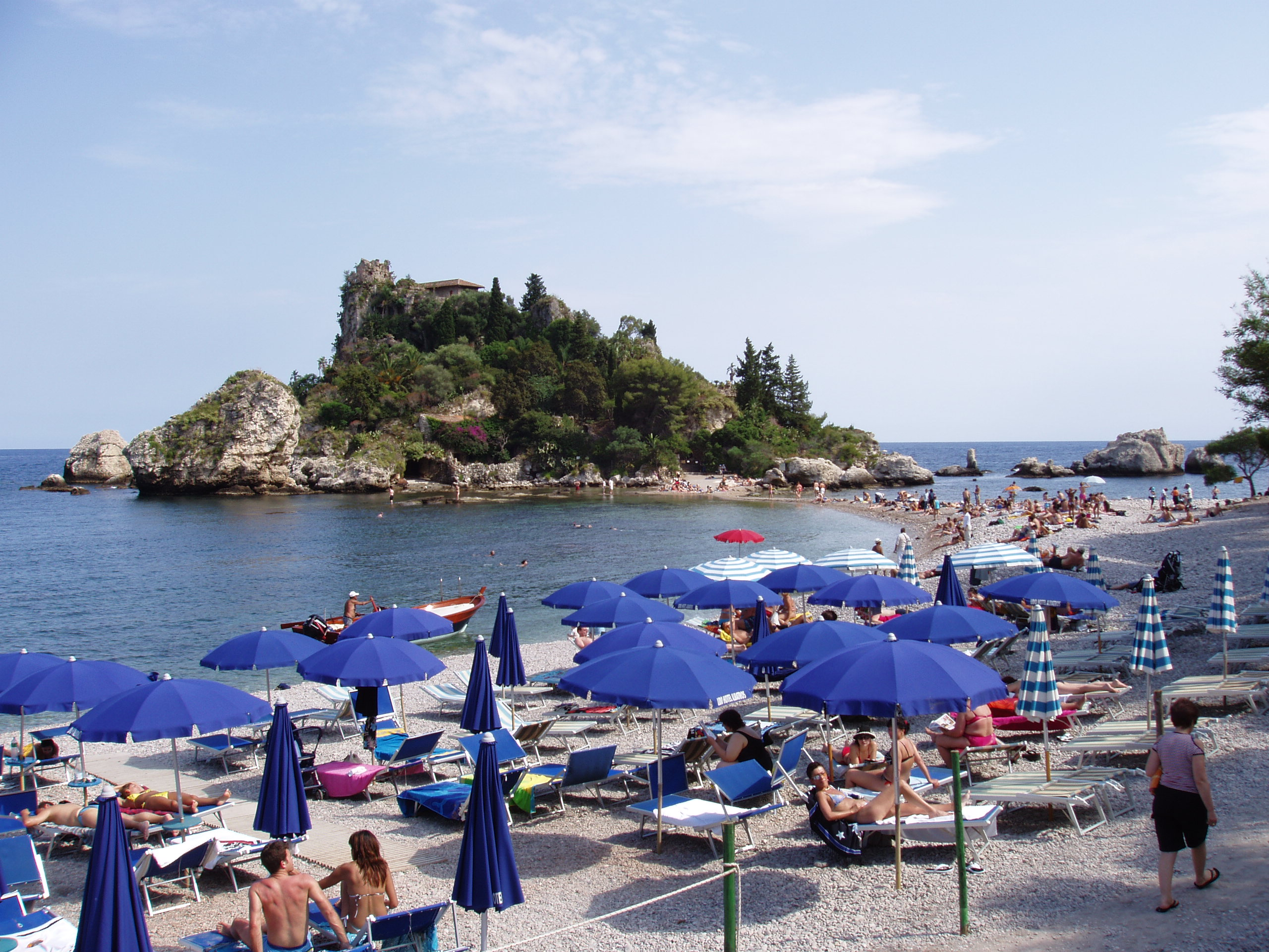 Picture of Isola Bella in Taormina from above the beach. Taken by User:Herandar on 06/12/2005.